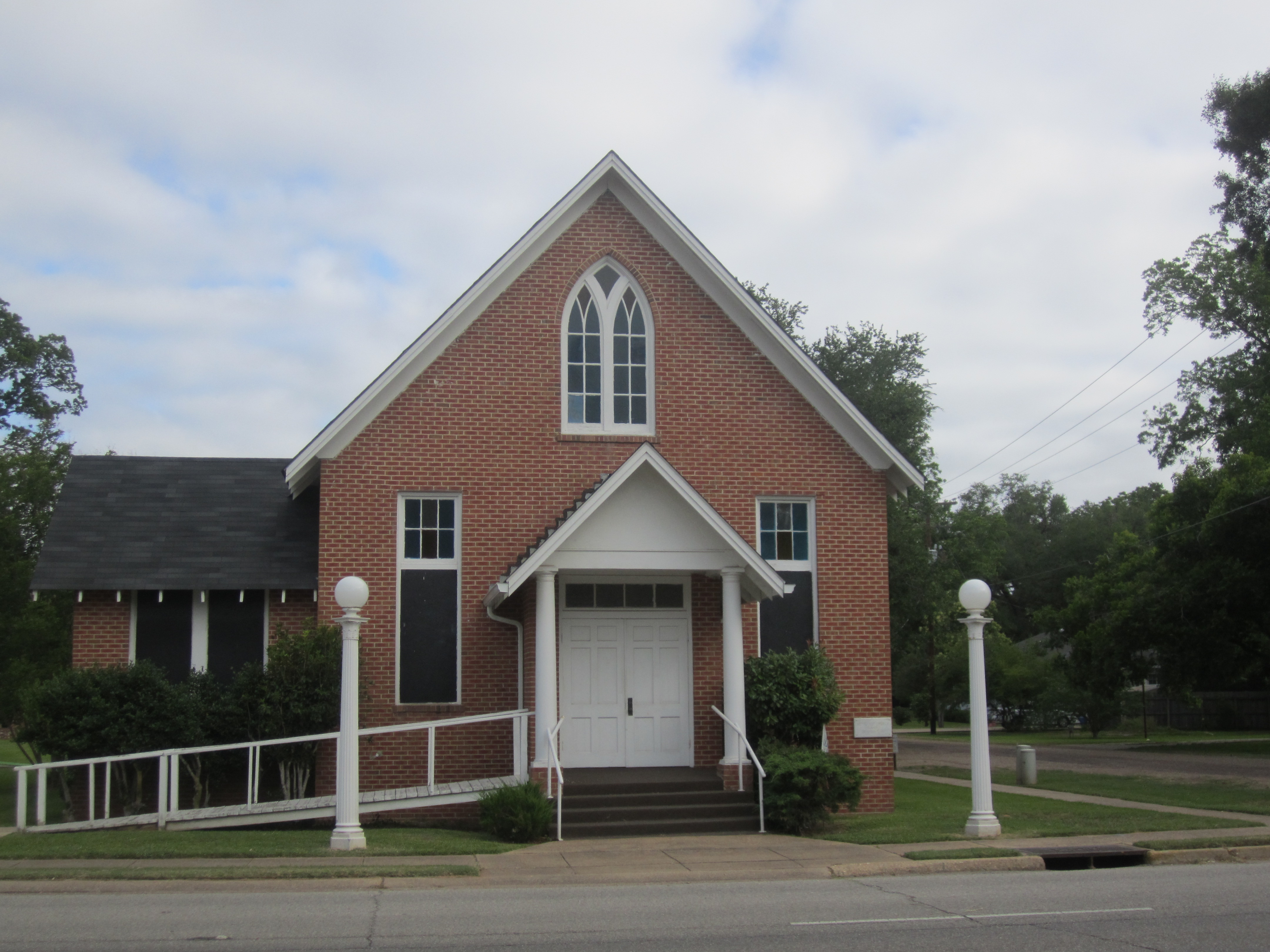 I took photo of First United Methodist Church in Colfax, LA, with Canon camera.